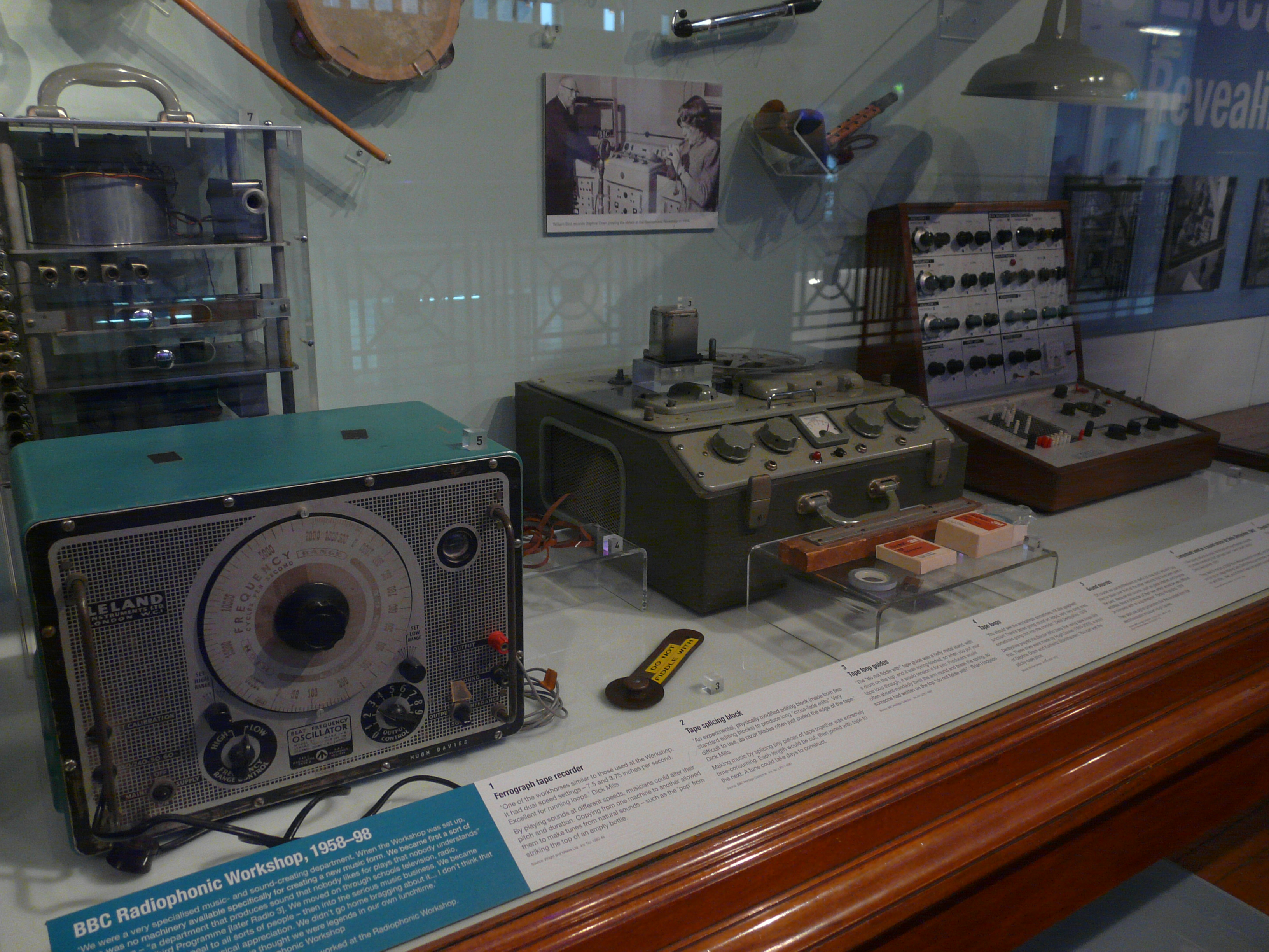 BBC Radiophonic Workshop, 1958-98 Ferrograph Tape Recorder Tape splicing block Tape loop guides Tape loops Sound Source Beat Frequency Oscillator, Leland Instruments Ltd., London W.C.I EMS The Putney (VCS3)